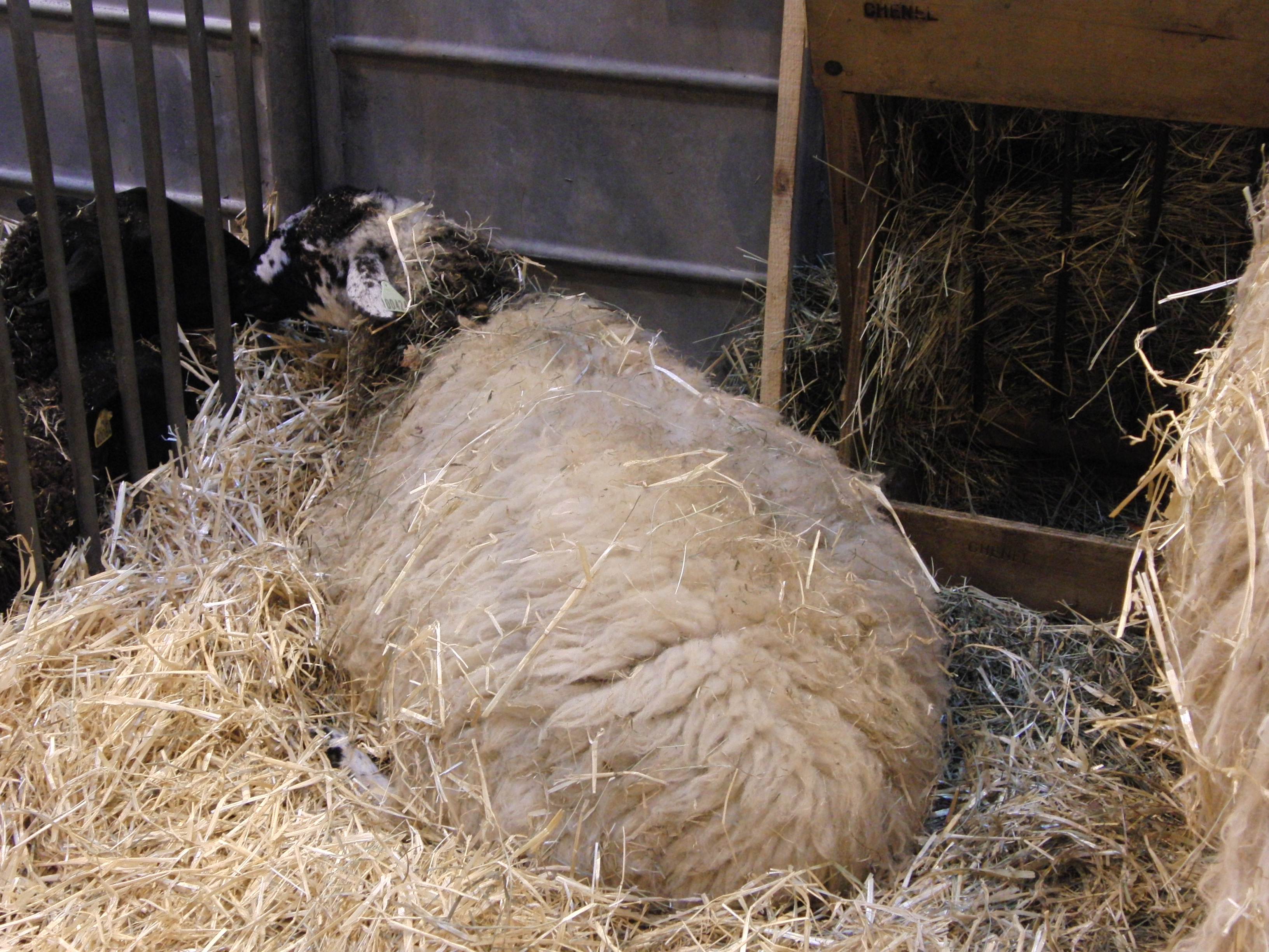 Rava sheep - Salon international de l'agriculture 2011, Paris, France